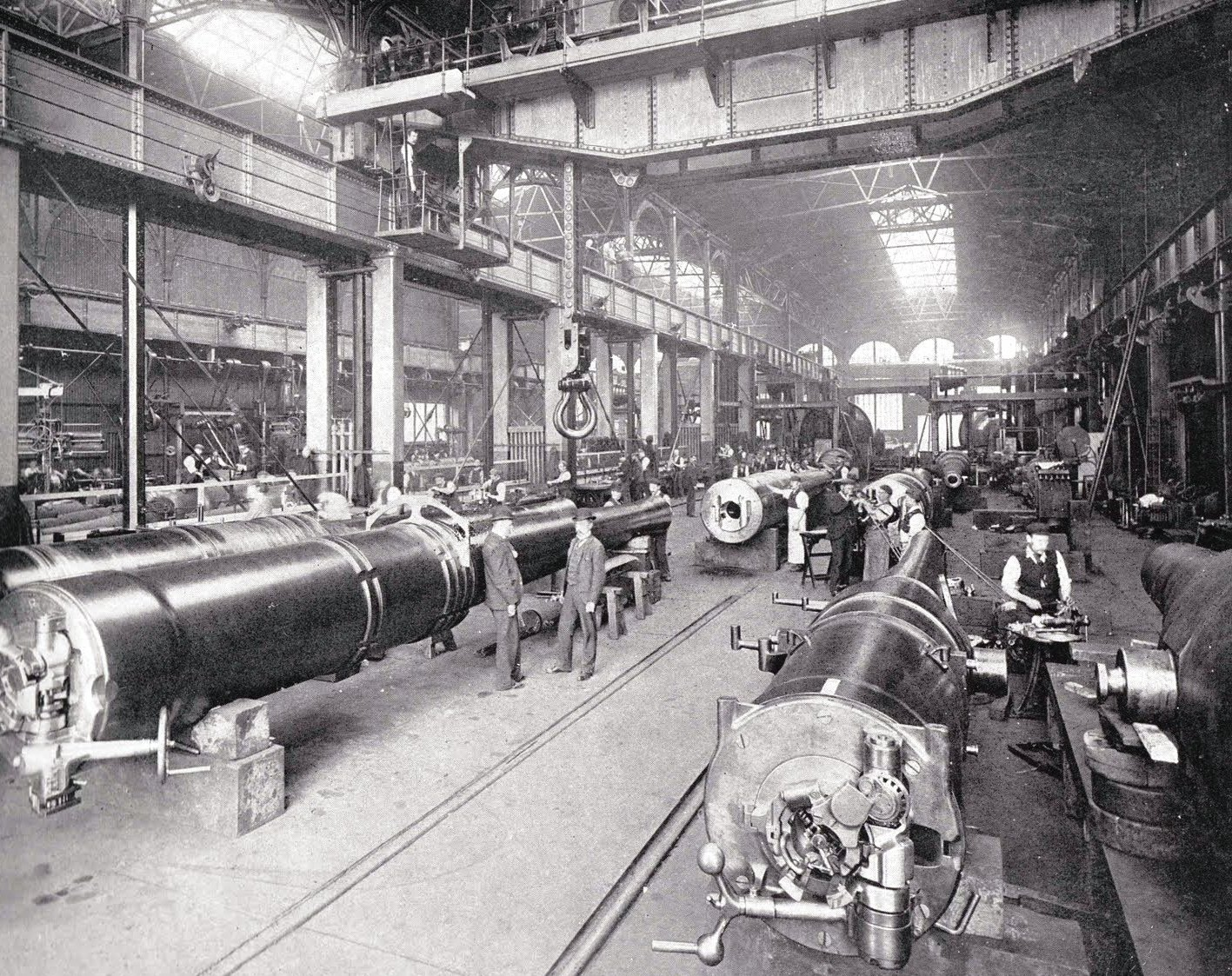 1897 photo in the Woolwich gun factory from a family album